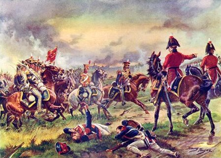 The 13th Light Dragoons at Waterloo 1815. Lord Hill - "Drive them back 13th".